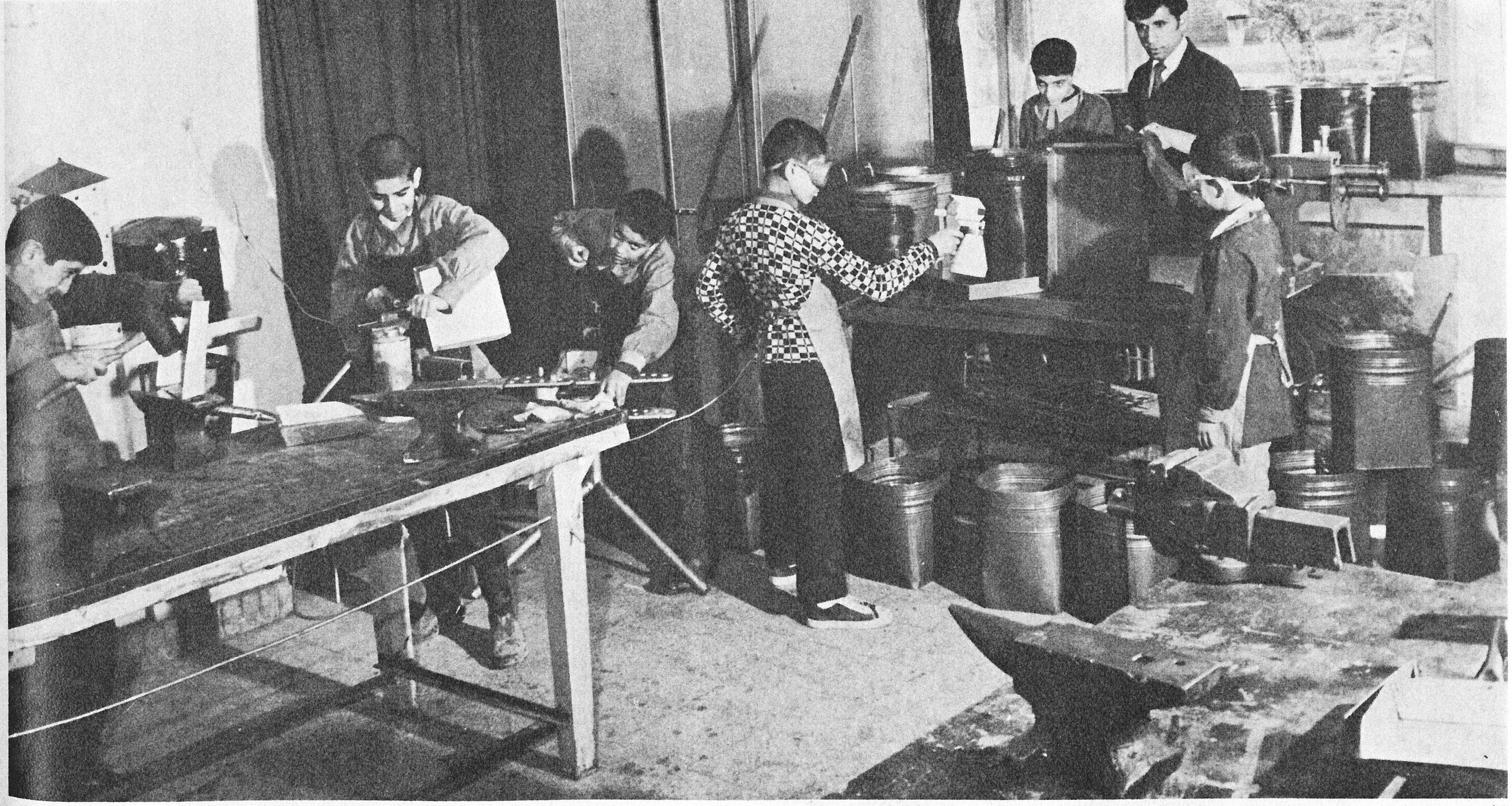 Felezkari Kargaah, Omid-e Kudak, metal workshop